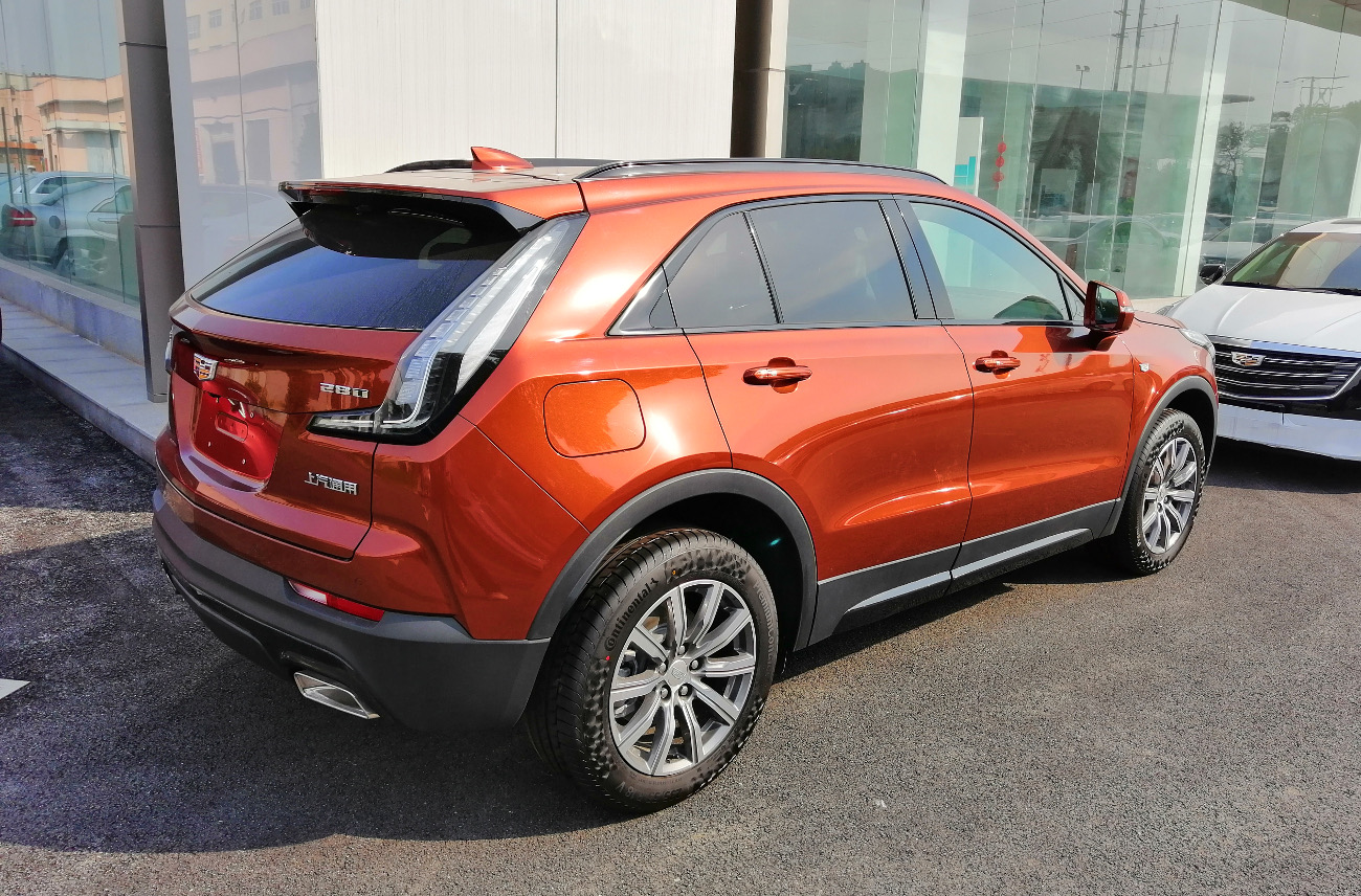 Cadillac XT4 photographed in Shanghai, China.